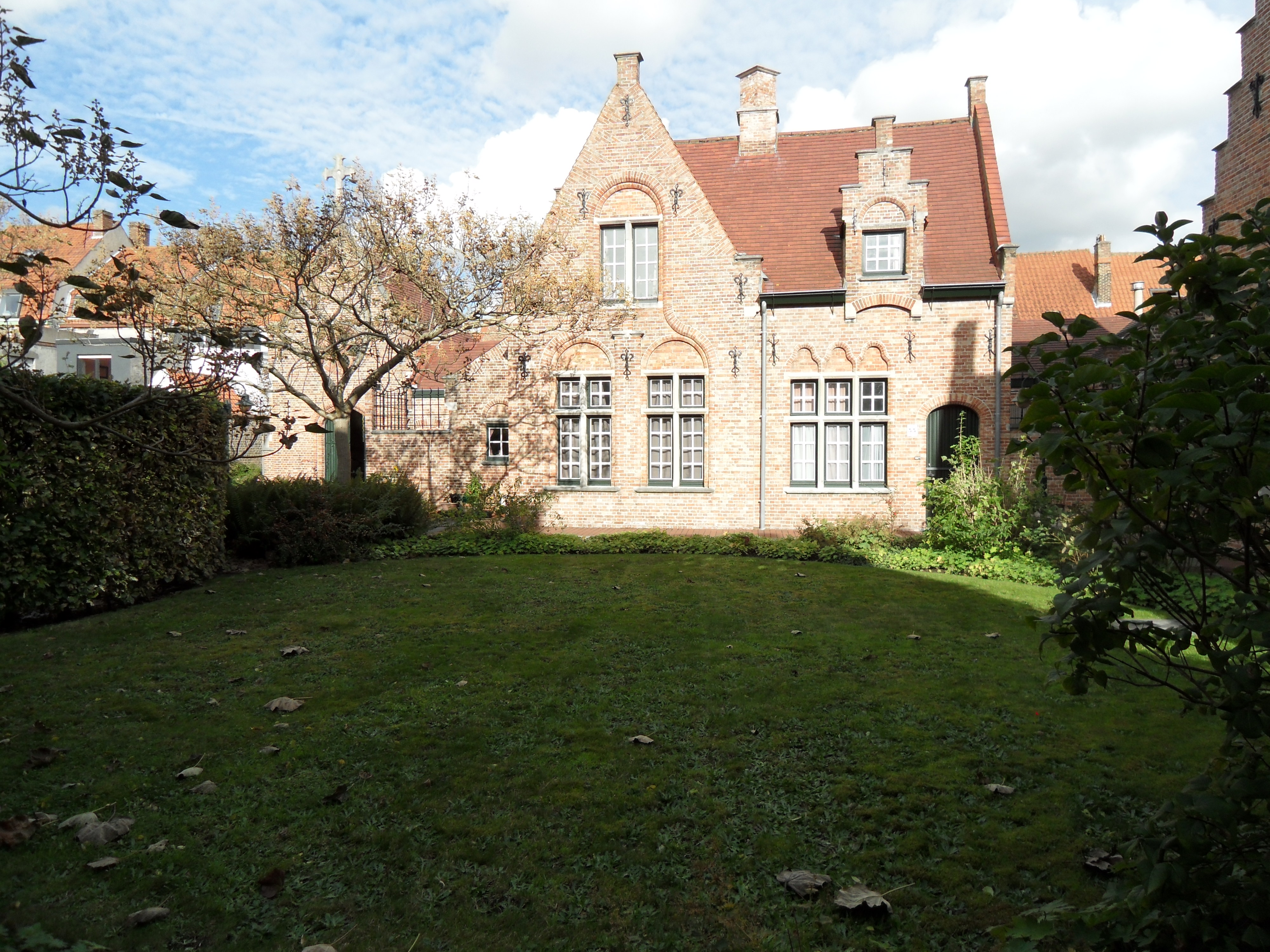 Godshuis de Croeser in Bruges